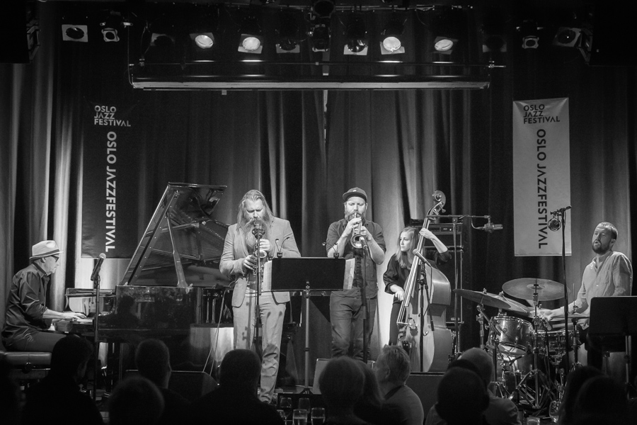 The Oslo Jazz Festival Orchestra 2016 at the stage of Nasjonal Jazzscene Victoria. The concert was part of the Oslo Jazz Festival in Norway and took place on 19. August 2016. Lineup: Mathias Eick (trumpet) Trygve Seim (saxophone) Jon Balke (piano) Ellen Andrea Wang (double bass) Gard Nilssen (drums)